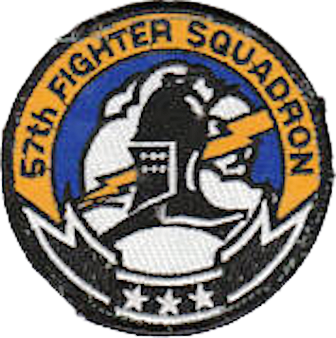 57th Fighter Squadron - Emblem